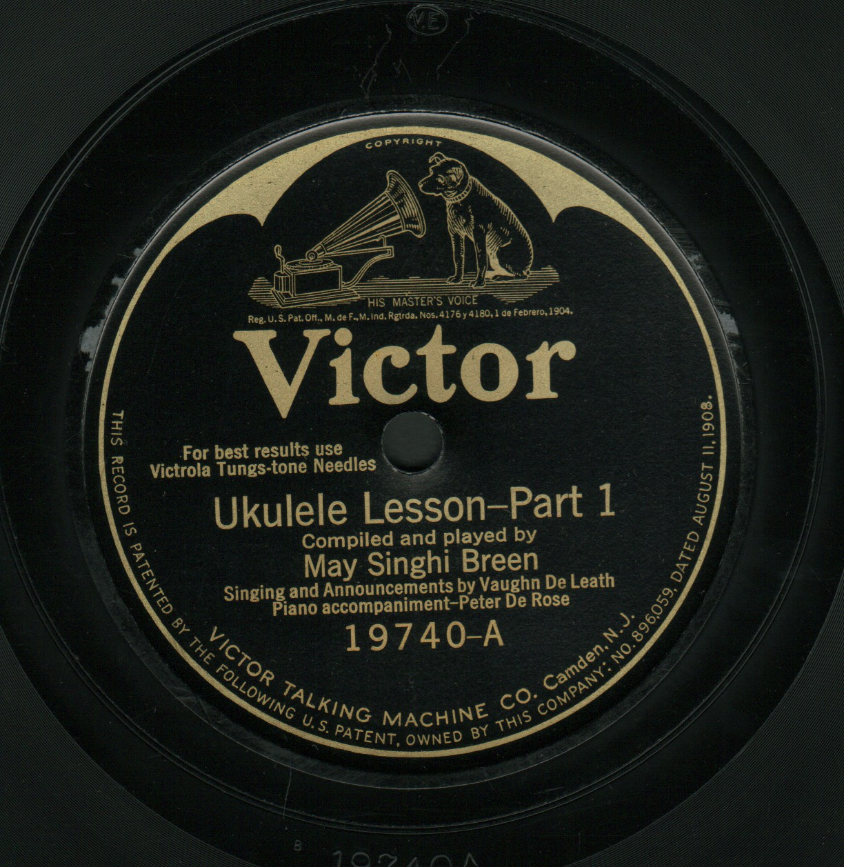 Label of a 1925 Victor commercial 78 rpm disc entitled "Ukulele Lesson - Part 1."